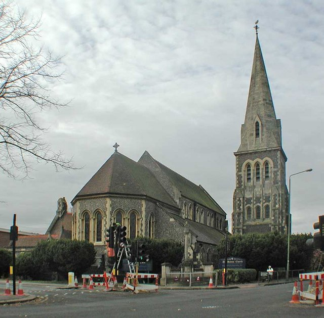 All Saints, Oakleigh Road North, London N20